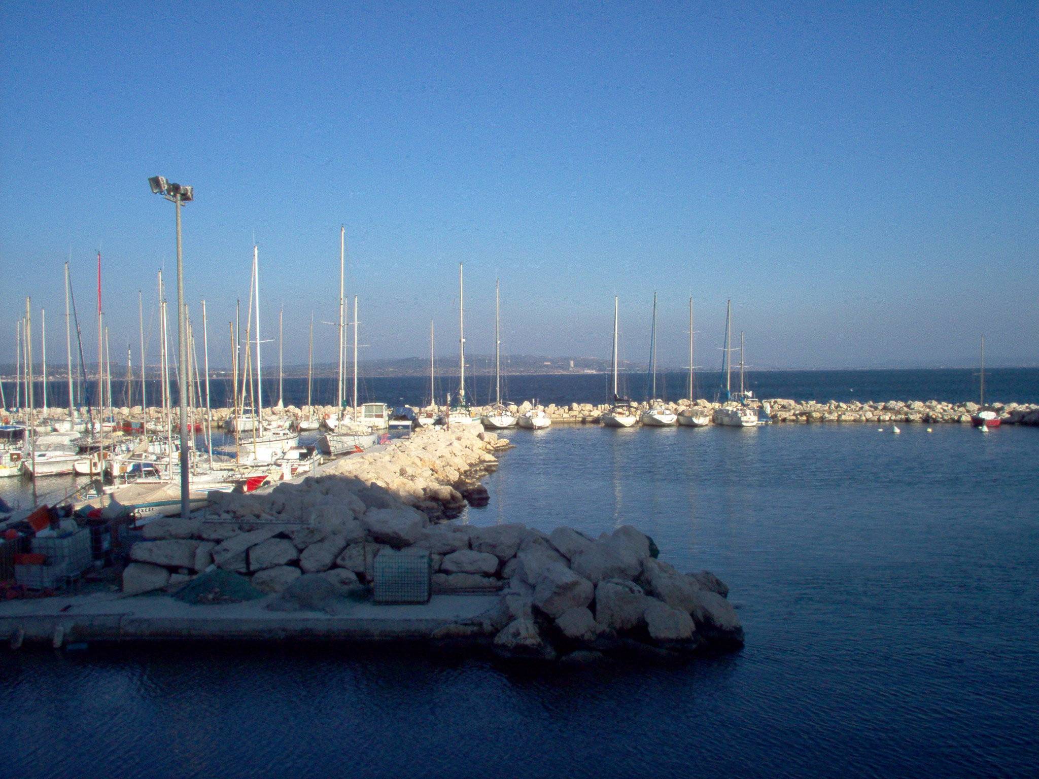 Photo taken by myself (User:GôTô) in 2006 at Istres, France.